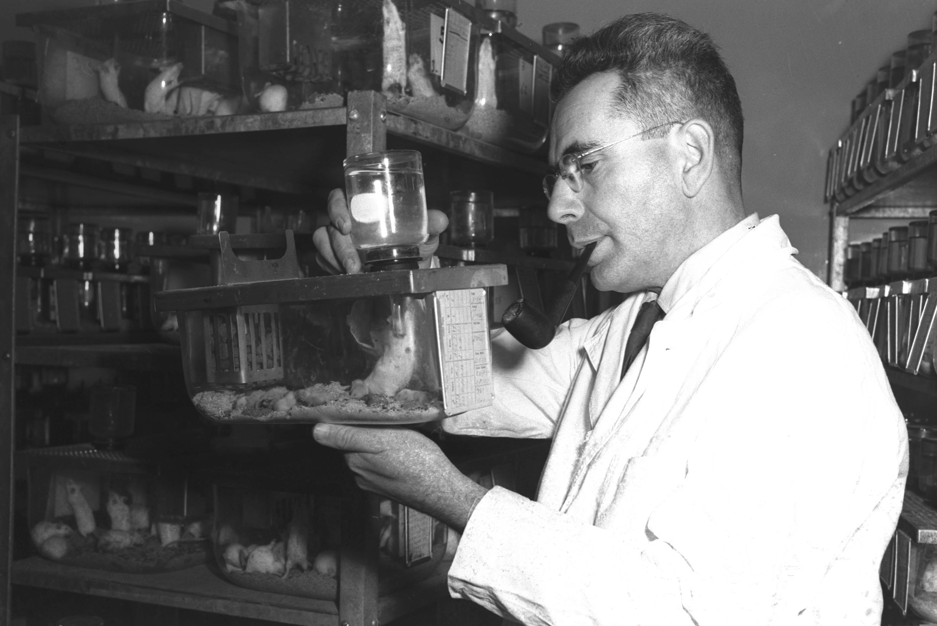 Original Description: PROFESSOR ISSAC BERENBLUM DIRECTOR OF THE DEPARTMENT OF EXPERIMENTAL BIOLOGY AT THE WEIZMANN INSTITUTE IN REHOVOT .